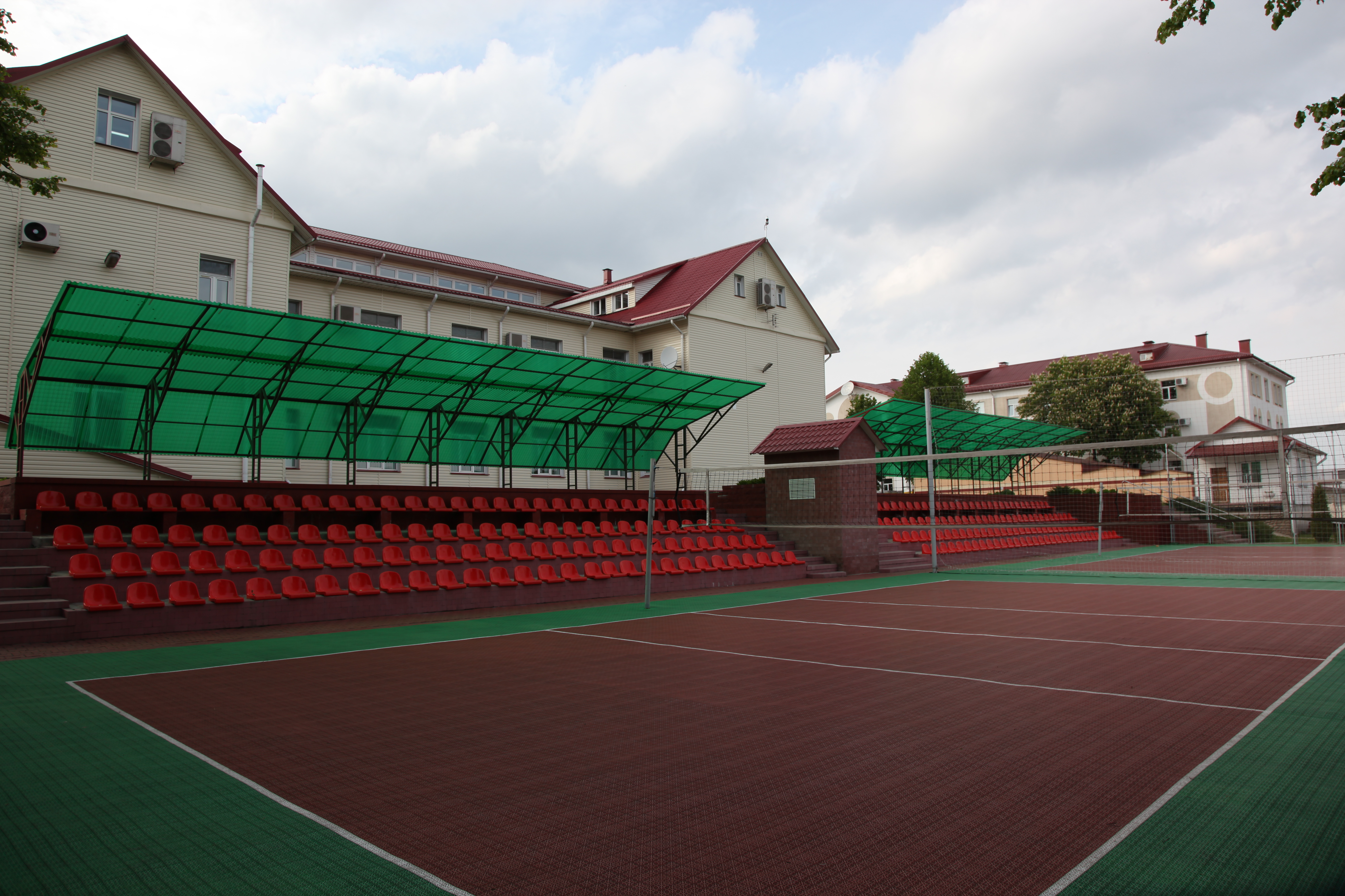 basketball and volleyball pitches